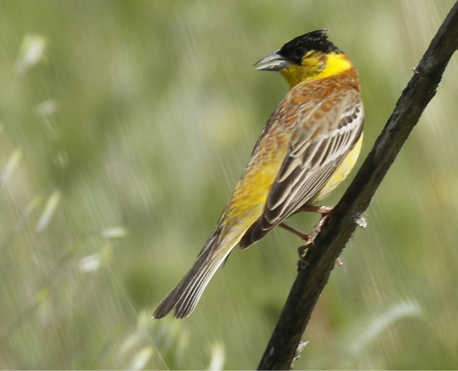 Struma River Valley - Bulgaria